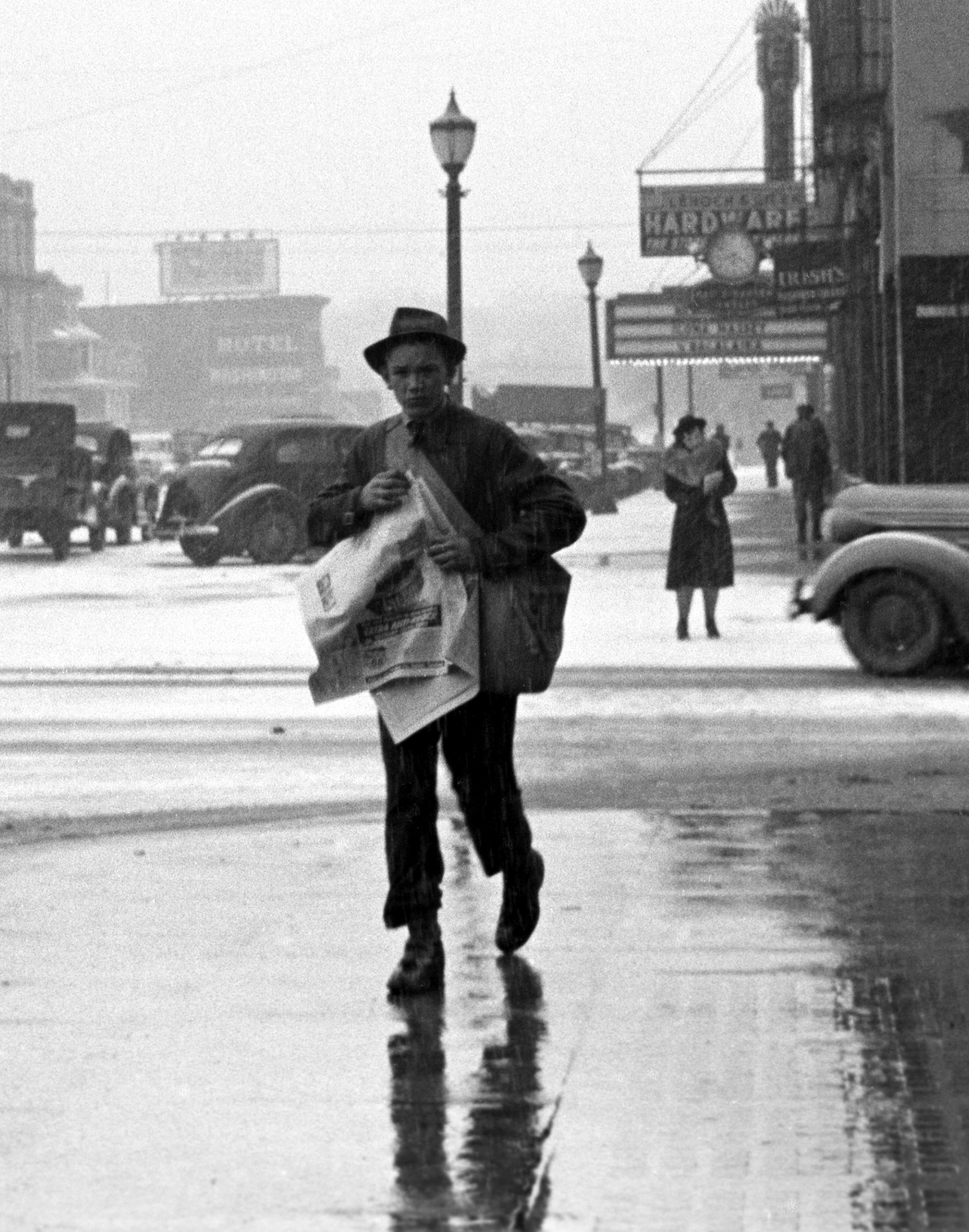 Paperboy , Iowa City, Iowa , 1940, by Arthur Rothstein. This is a cropped image, looking east into the 200 block of Washington Street. Although cropped from this image, the Jefferson Hotel is just right of the carrier (to his left) at a spot now the storefront of Herteen & Stocker Jewelers. The building in the immediate background was demolished to make space for Blackhawk Minipark, now part of the downtown Pedmall (pedestrian walkway) which occupies that block of Dubuque Street. The theater marquee in the background to the right of the carrier is for the historic Englert Theatre at 221 Washington Street.